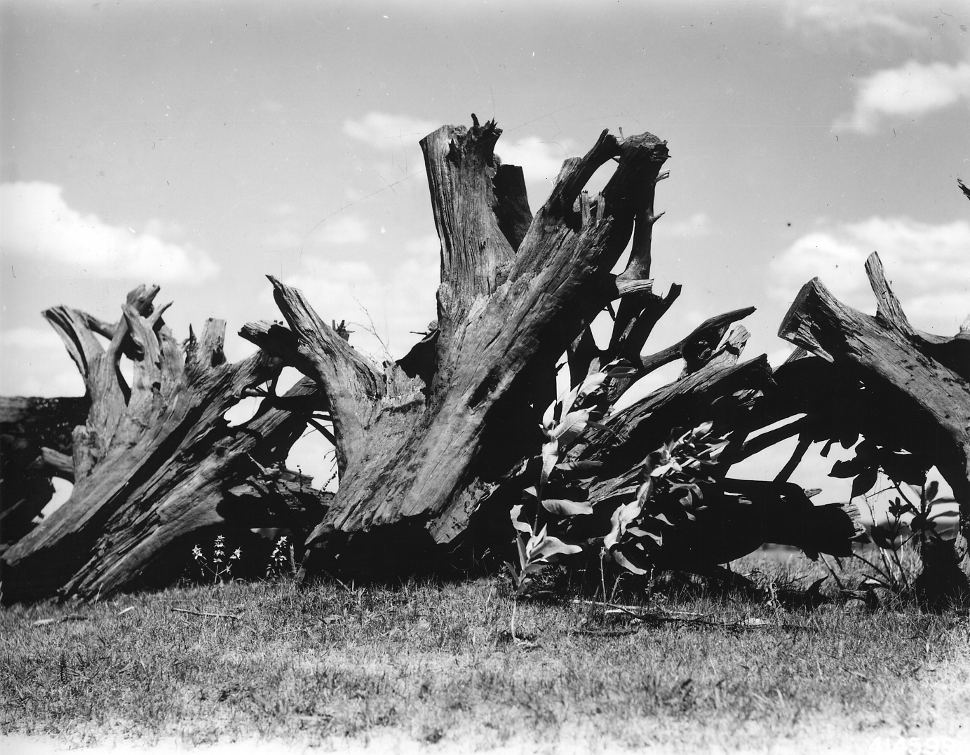 Scope and content: Original caption: Stump Fence around fields on a farm near White Cloud, Mich. This area part of the "inexhaustible" stands of virgin white pine in the lake states. The trees have long since been cut down and now the stumps have been pulled and are used to fence farm fields.